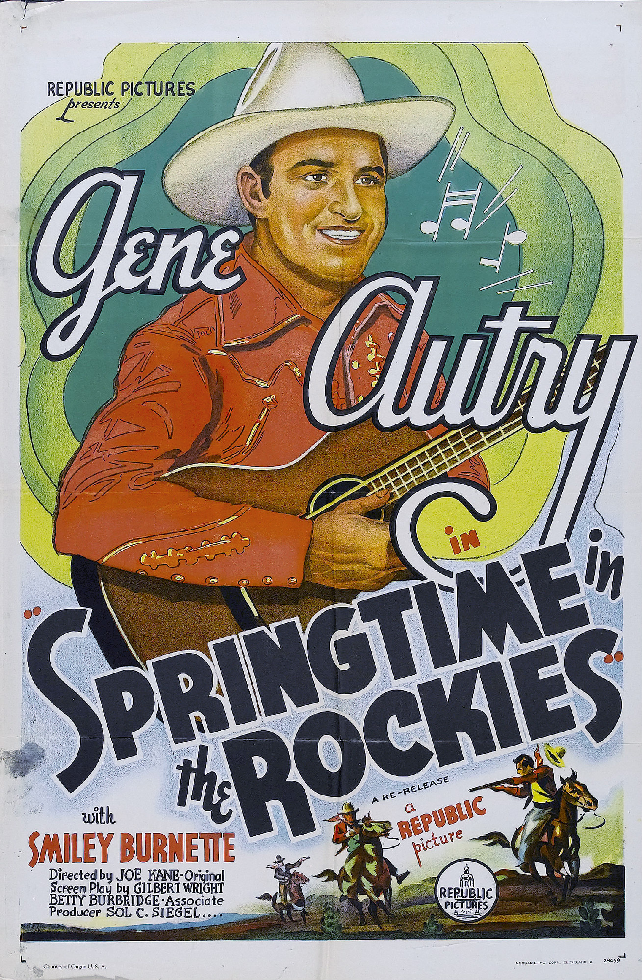 Poster for the 1937 film Springtime in the Rockies. The item has no copyright marks as can be seen in the links. At bottom left is Country of origin USA. At bottom right is Morgan Litho Corp., Cleveland, O.-they printed the poster-and 28099.